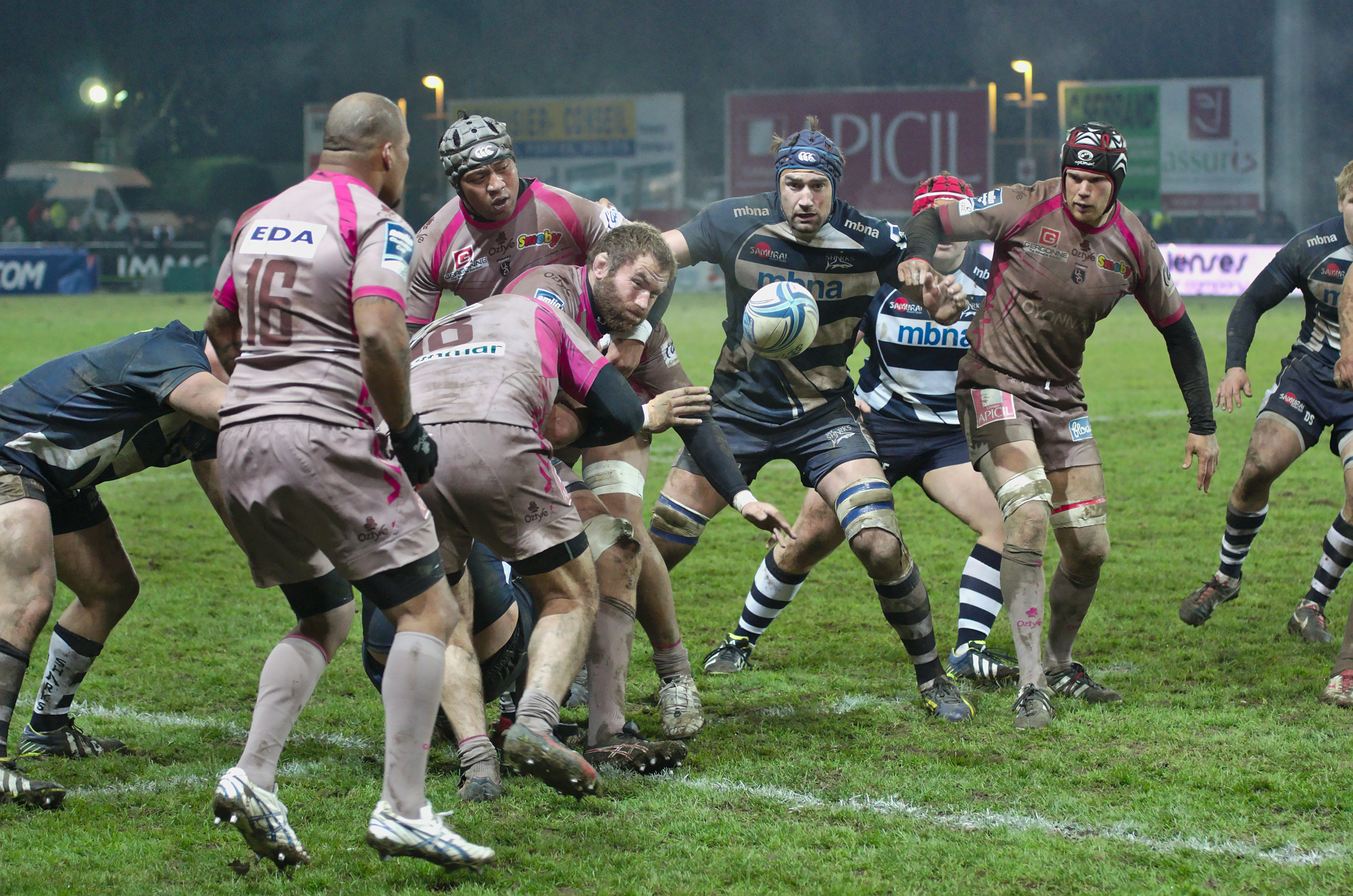 USO-Sale Sharks - 20131205 - Ballon flottant